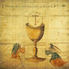 Banner of Amakusa Shiro, Amakusa Christian Museum, Amakusa, Kumamoto, Japan